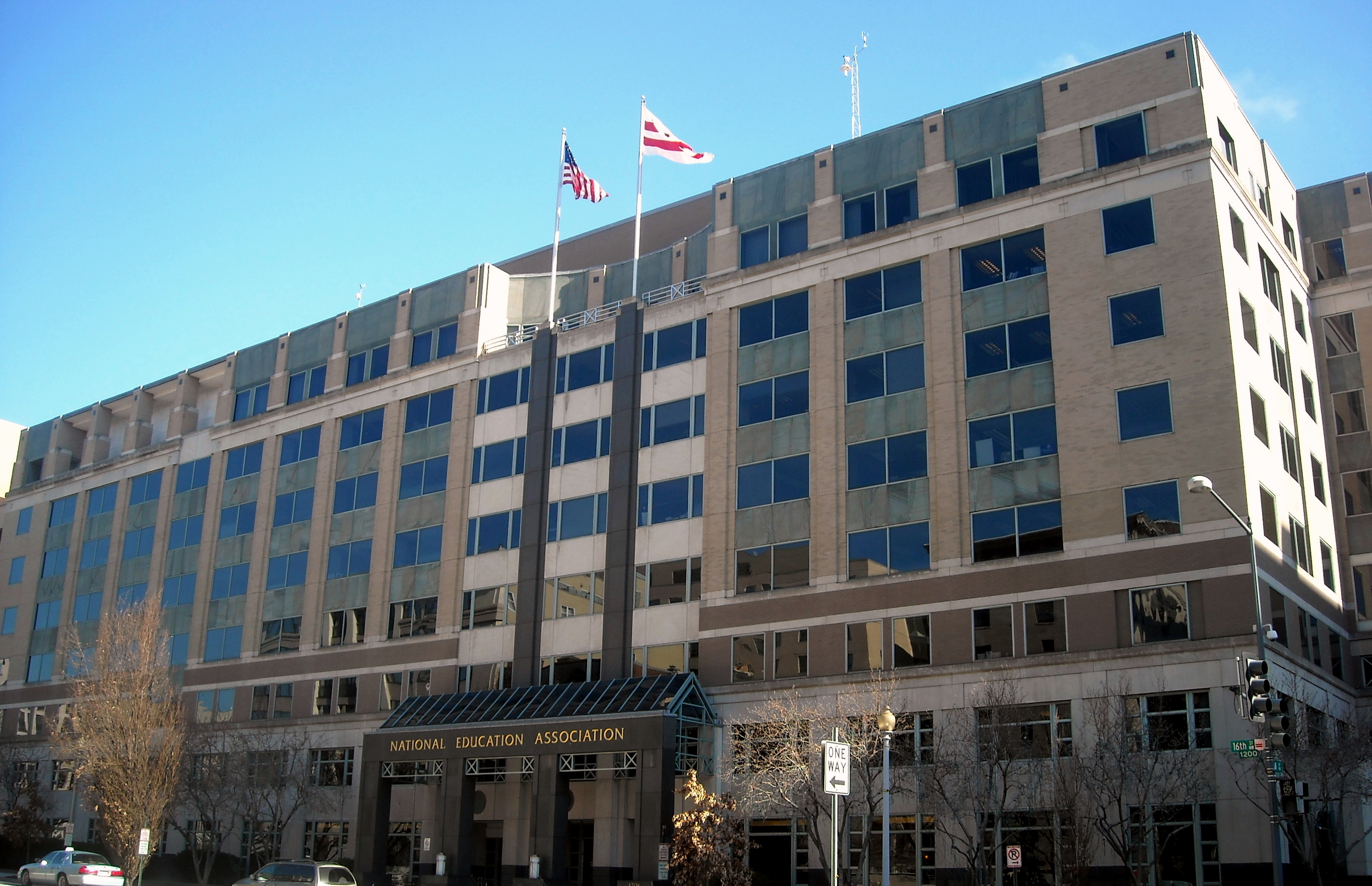 The National Education Association headquarters located at 1201 16th Street, N.W., in downtown Washington, D.C. The modernist office building was constructed in 1963.